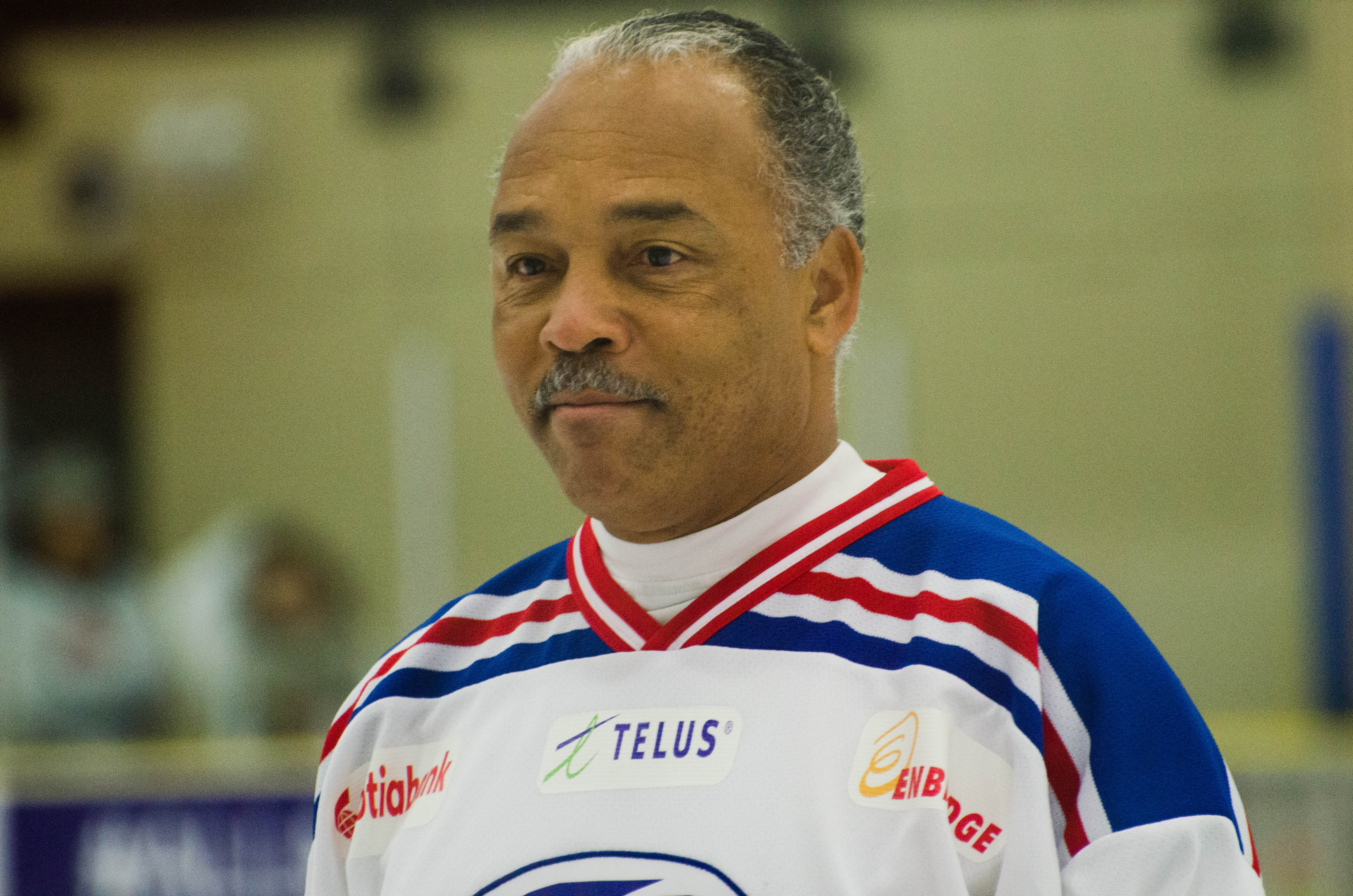 George Rogers, 2015